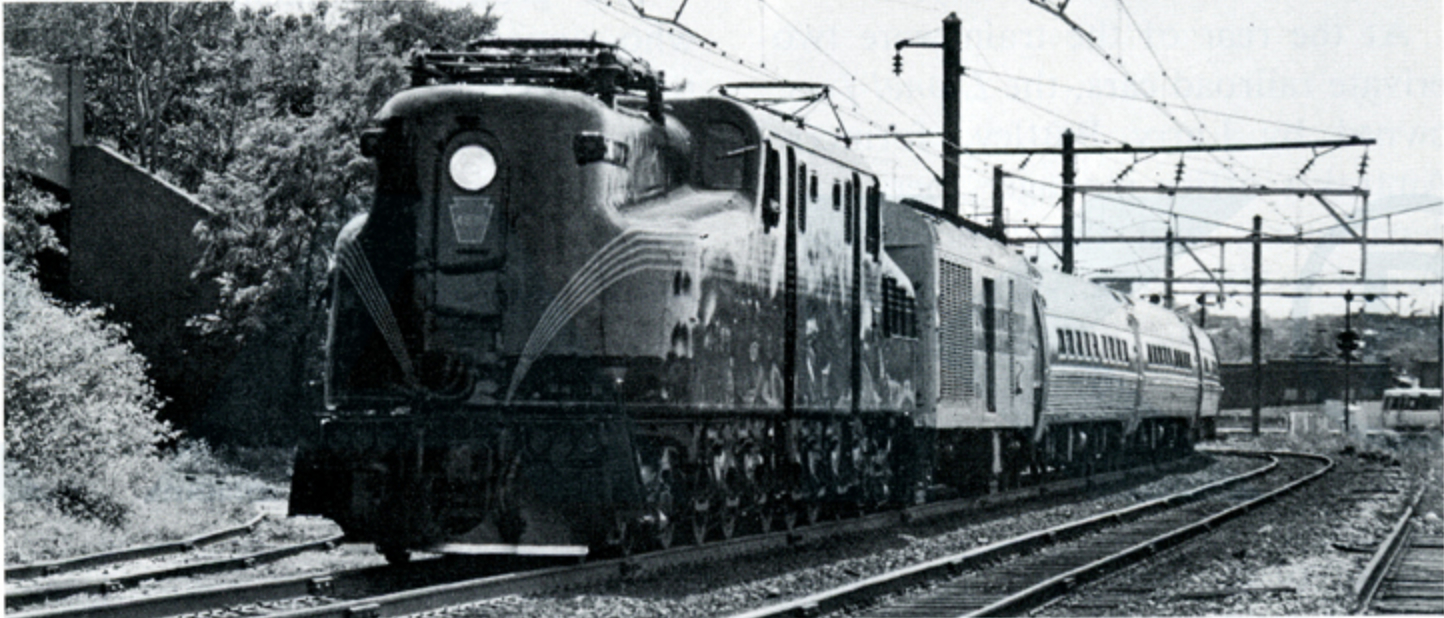 Newly restored GG1 #4935 pulls the Murray Hill on May 15, 1977